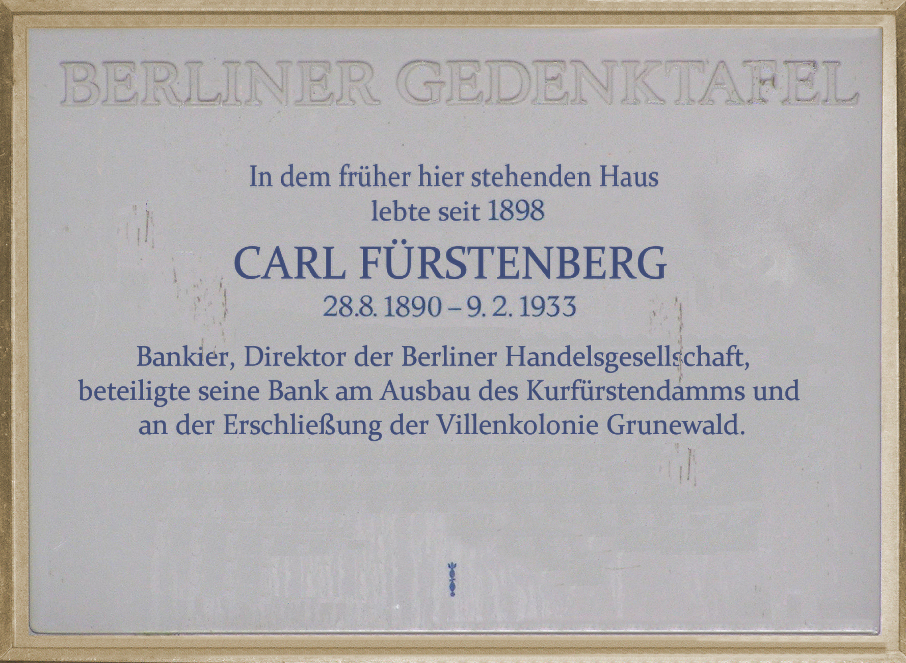 Berlin memorial plaque, Carl Fürstenberg, Koenigsallee 53c-e, Berlin-Grunewald, Germany